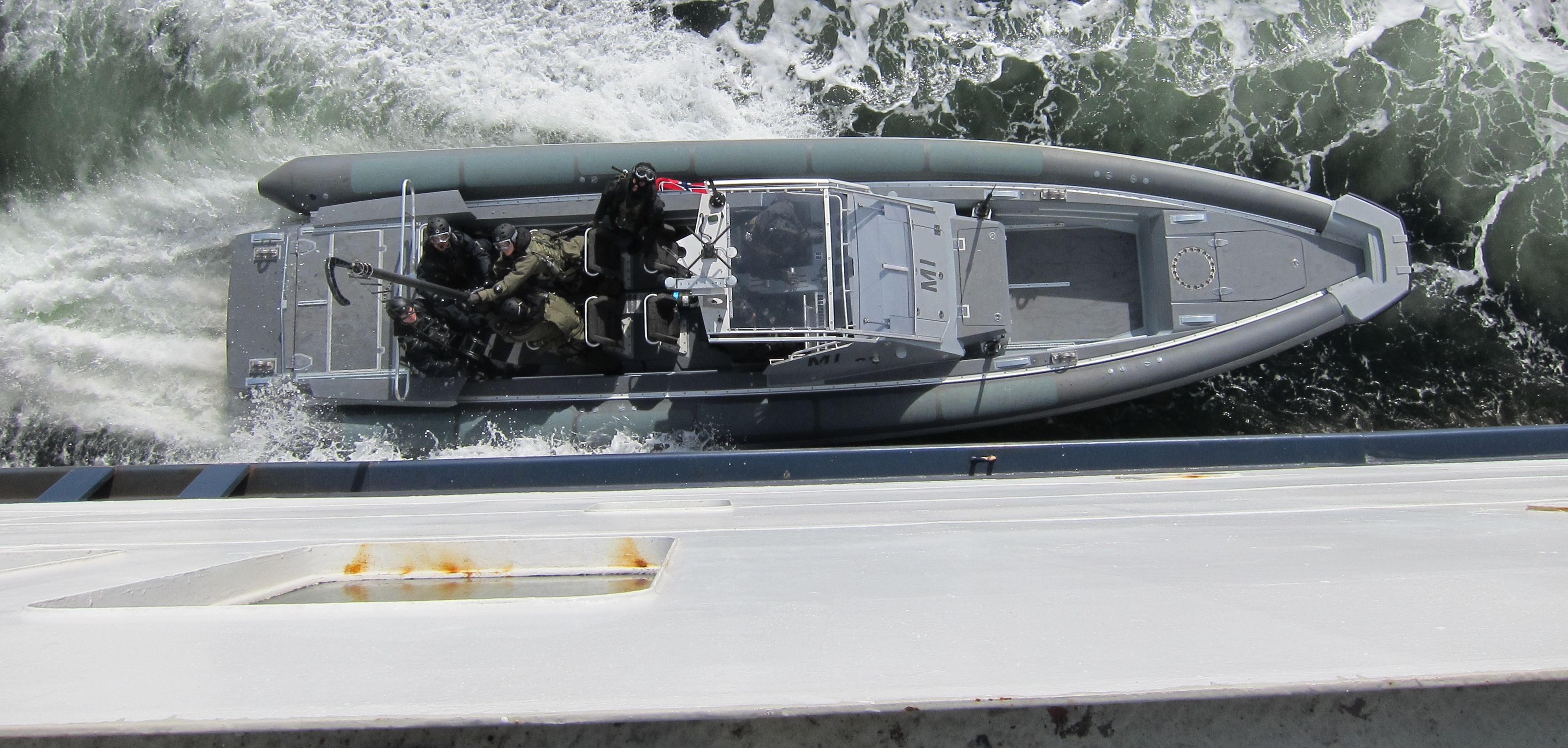 Forsvarets Spesialkommando (FSK, en. Armed Forces' Special Command) training in the Oslofjord on entering a passenger ferry with telescopic ladder.